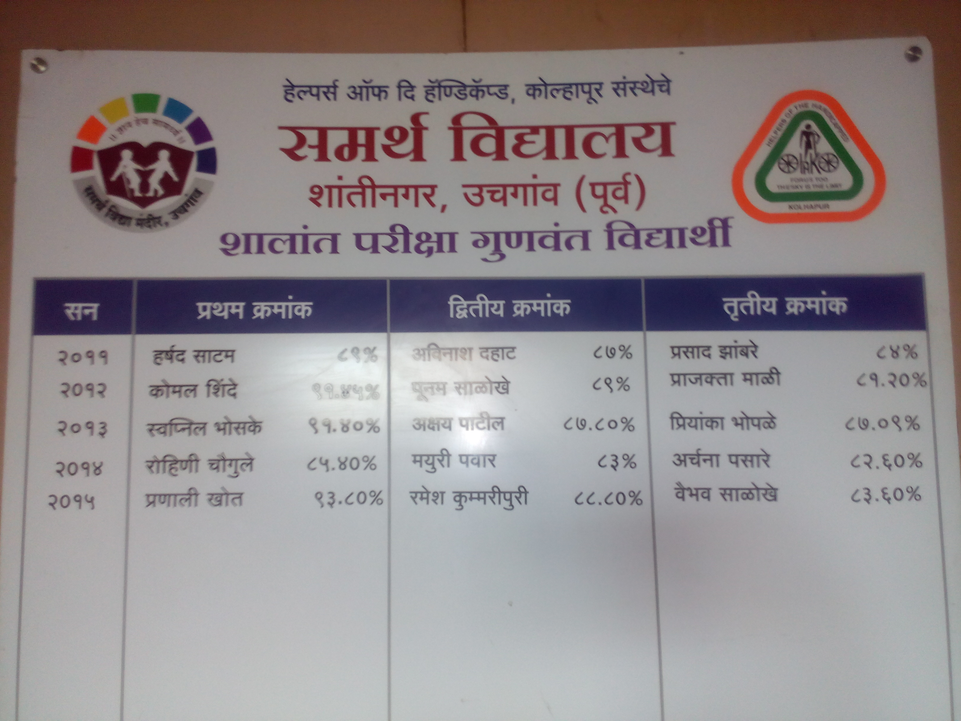 गुणवंत विद्यार्थी